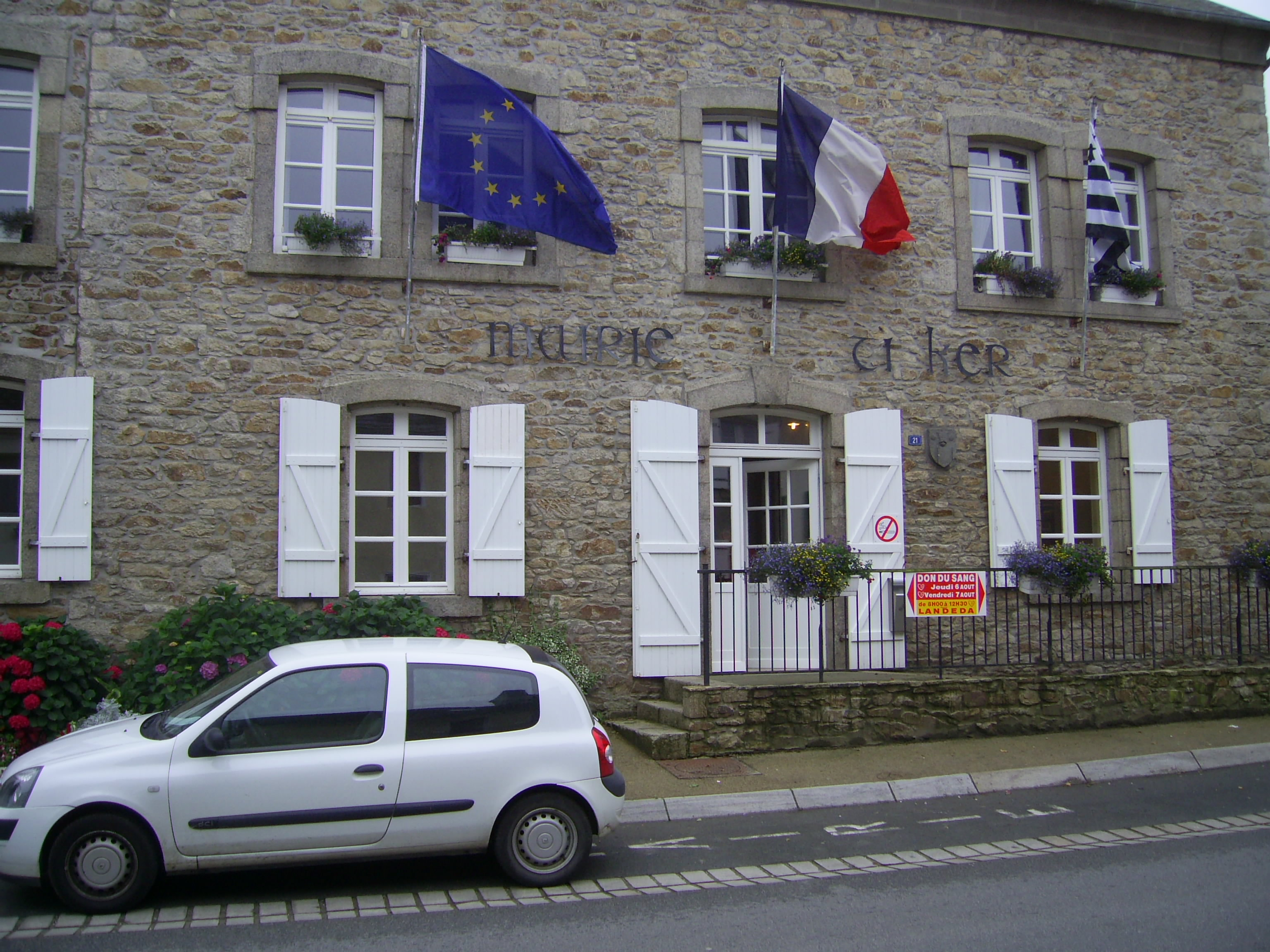 Old Town hall of Landéda (France, Finistère)